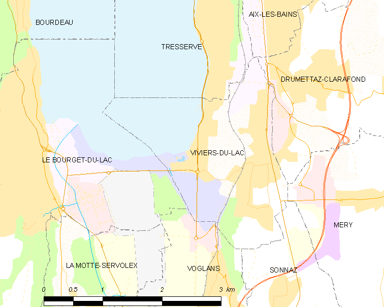 Map of French municipality Viviers-du-Lac